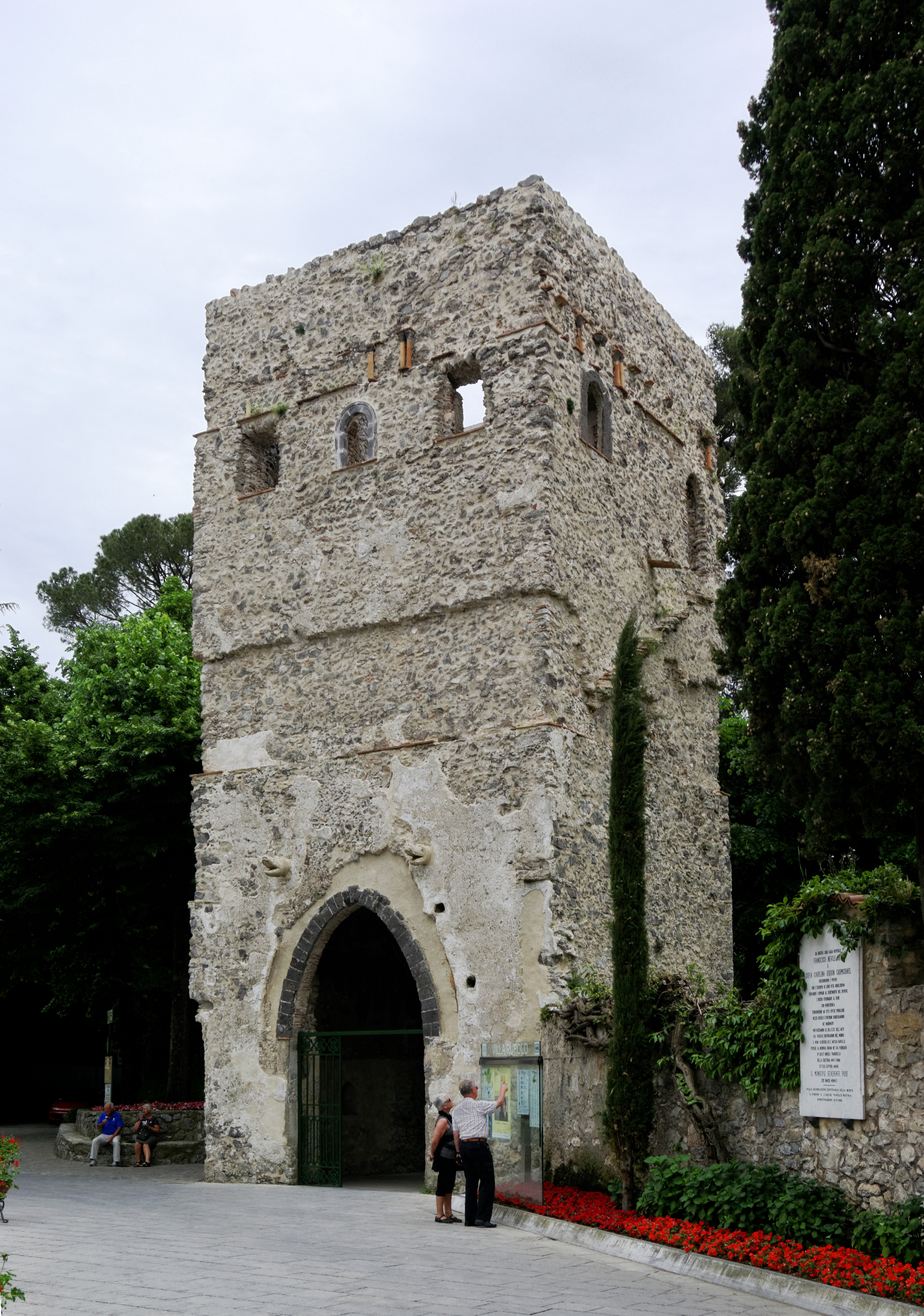 Ravello